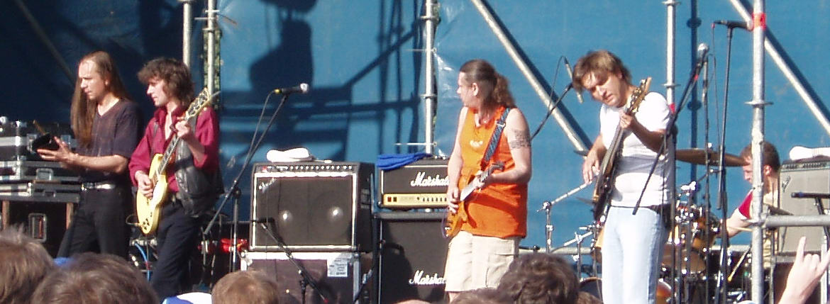 Chizh & Co performing in Saint Petersburg near the Kirov Stadium on 6 July 2006